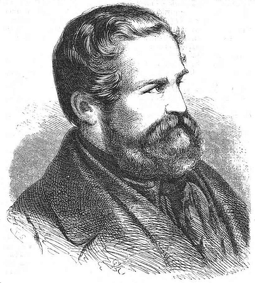 caption: "J. H. Rausse"